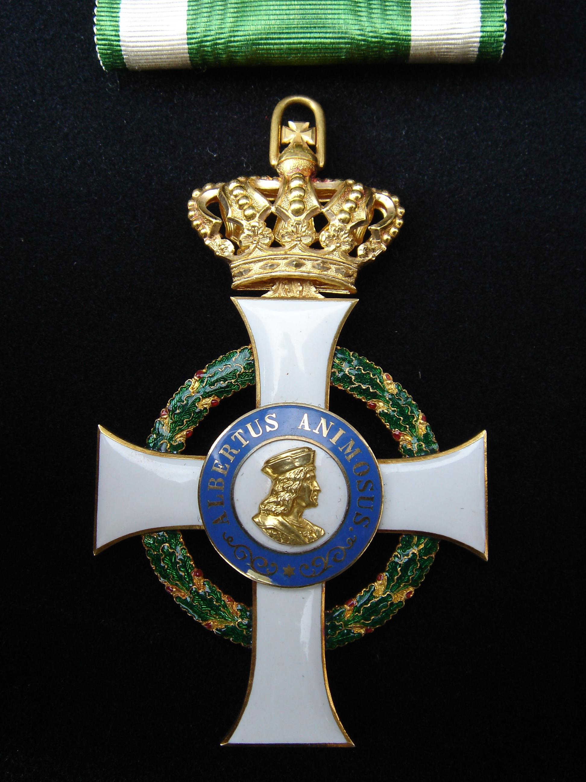 IMPERIAL GERMAN SAXONY KINGDOM ALBRECHTS ORDER KNIGHTS CROSS, ALBERTUS ANIMOSUS – 1850 (front)